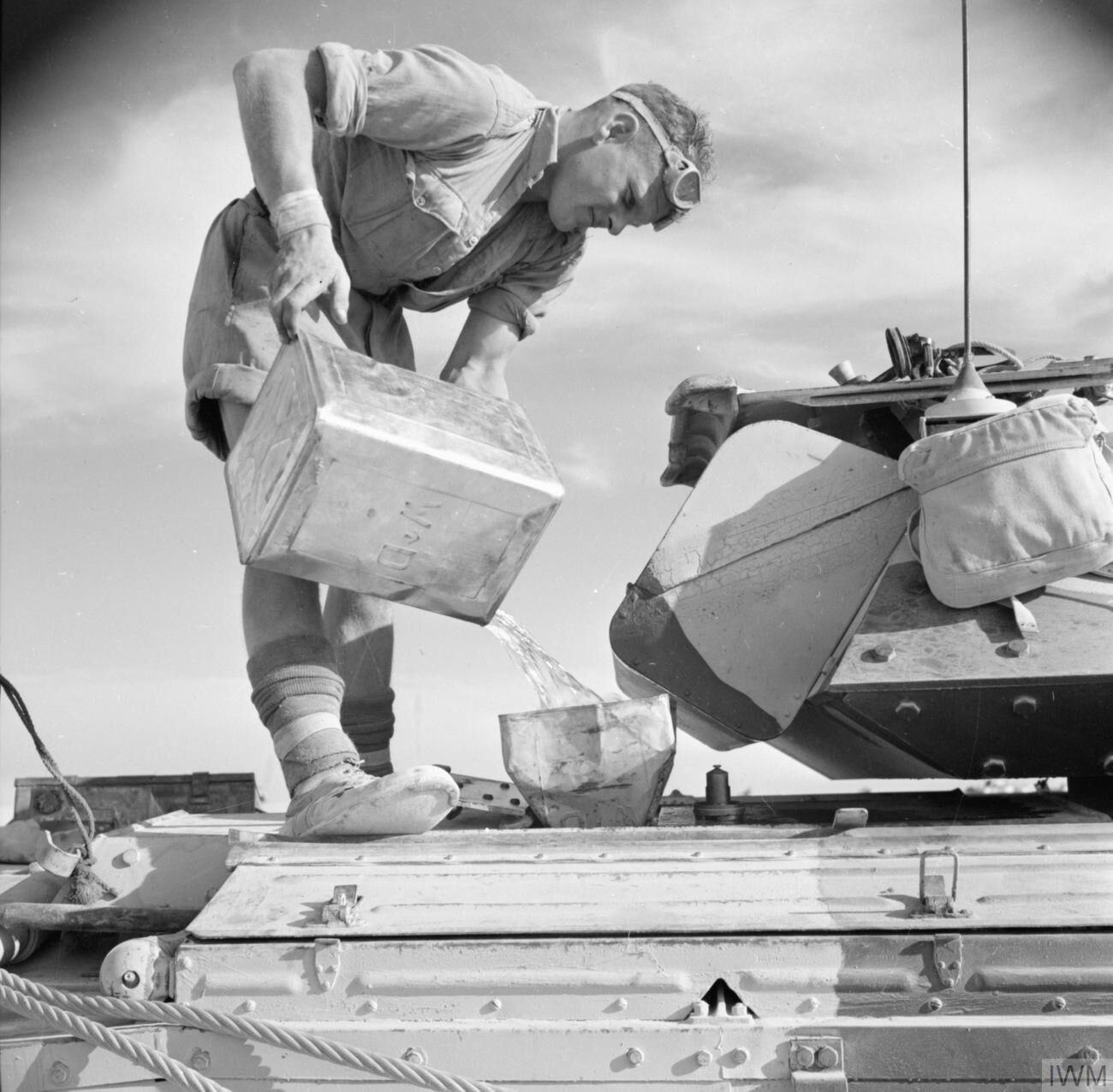 The British Army in North Africa 1942 A soldier filling a Crusader tank with petrol from a 4-gallon tin or 'flimsy', 27 October 1942.